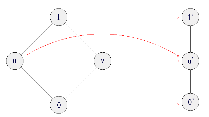 Shows an order-preserving map f between two (distributive bounded) lattices that is neither a join- nor a meet-homomorphism, since f(u)∨f(v)=u'∨u'=u'≠1'=f(1)=f(u∨v) and f(u)∧f(v)=u'∧u'=u'≠0'=f(0)=f(u∧v).